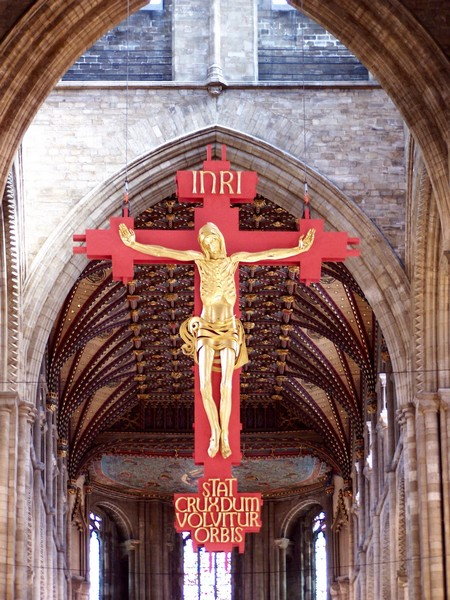 The hanging crucifix or rood taken by kev747